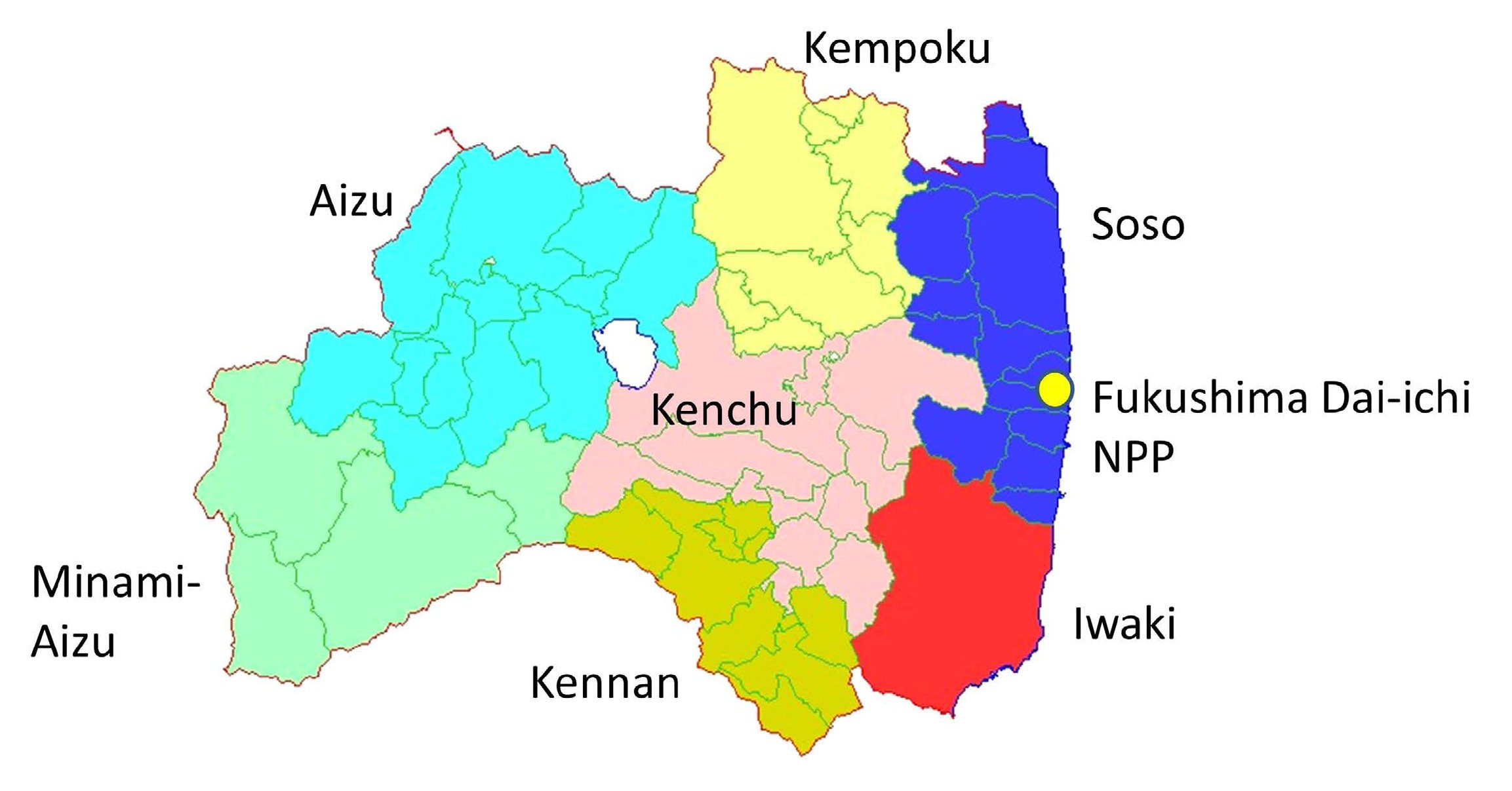 Source: Tetsuo Ishikawa, Seiji Yasumura, Kotaro Ozasa, Gen Kobashi, Hiroshi Yasuda, Makoto Miyazaki, Keiichi Akahane, Shunsuke Yonai, Akira Ohtsuru, Akira Sakai, Ritsu Sakata, Kenji Kamiya & Masafumi Abe: "The Fukushima Health Management Survey: estimation of external doses to residents in Fukushima Prefecture", Scientific Reports, 5, Article number: 12712 (2015), pp. 1-11, Published: 04 August 2015. Here: p. 5, Figure 3 ("Map showing the location of the Fukushima Dai-ichi NPP in relation to seven areas of Fukushima Prefecture"). License: Creative Commons Attribution 4.0 International (CC BY 4.0). Caption as given by the original source, as cited above: "Figure 3: Map showing the location of the Fukushima Dai-ichi NPP in relation to seven areas of Fukushima Prefecture. The map was created by Haku-chizu KenMap software ( freeware approved by Geospatial Information Authority of Japan with approval No. 149 in 2002)14. The white unnamed area in the center is Lake Inawashiro."